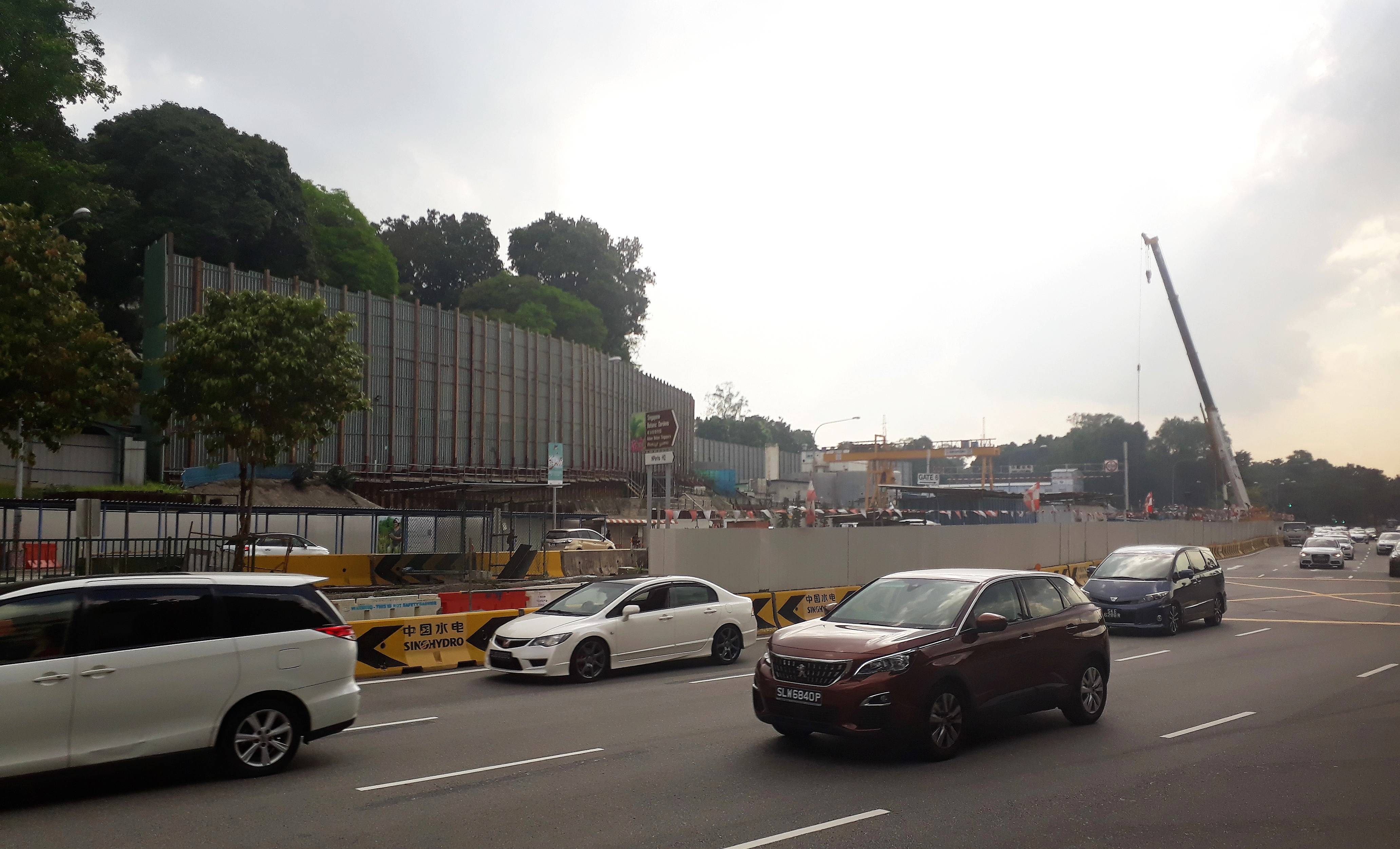 Napier MRT station under construction